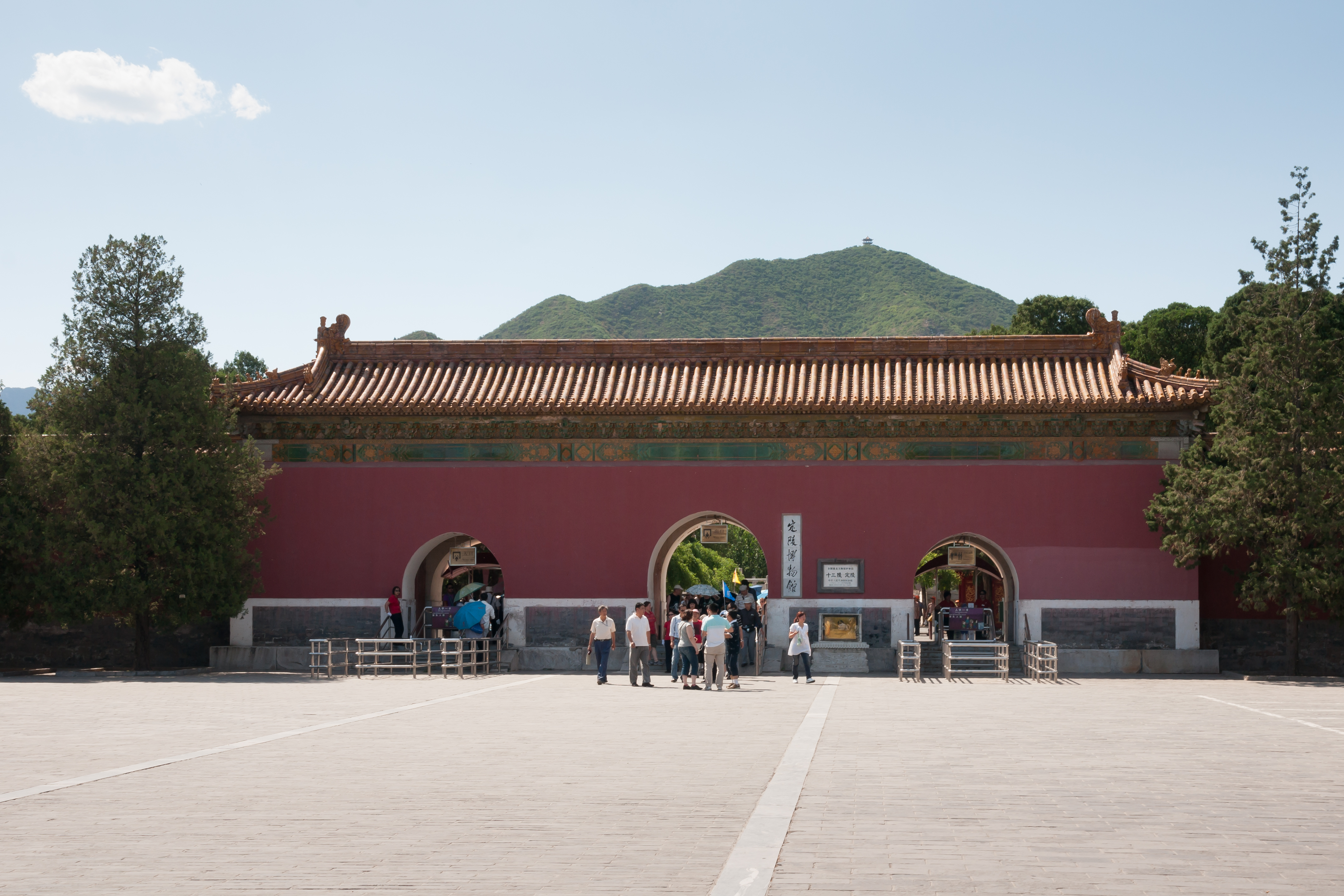 Dingling, China: Entrance to the Dingling tomb compound